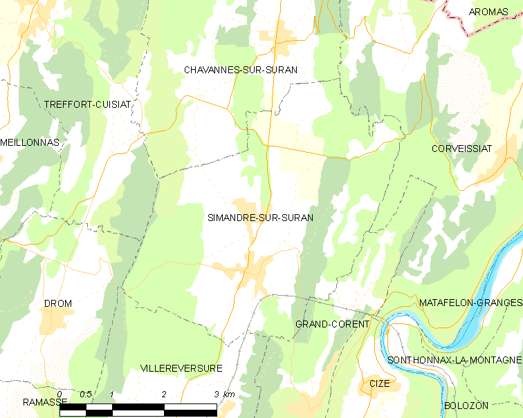 Map of French commune: Simandre-sur-Suran Map commune FR insee code 01408.png